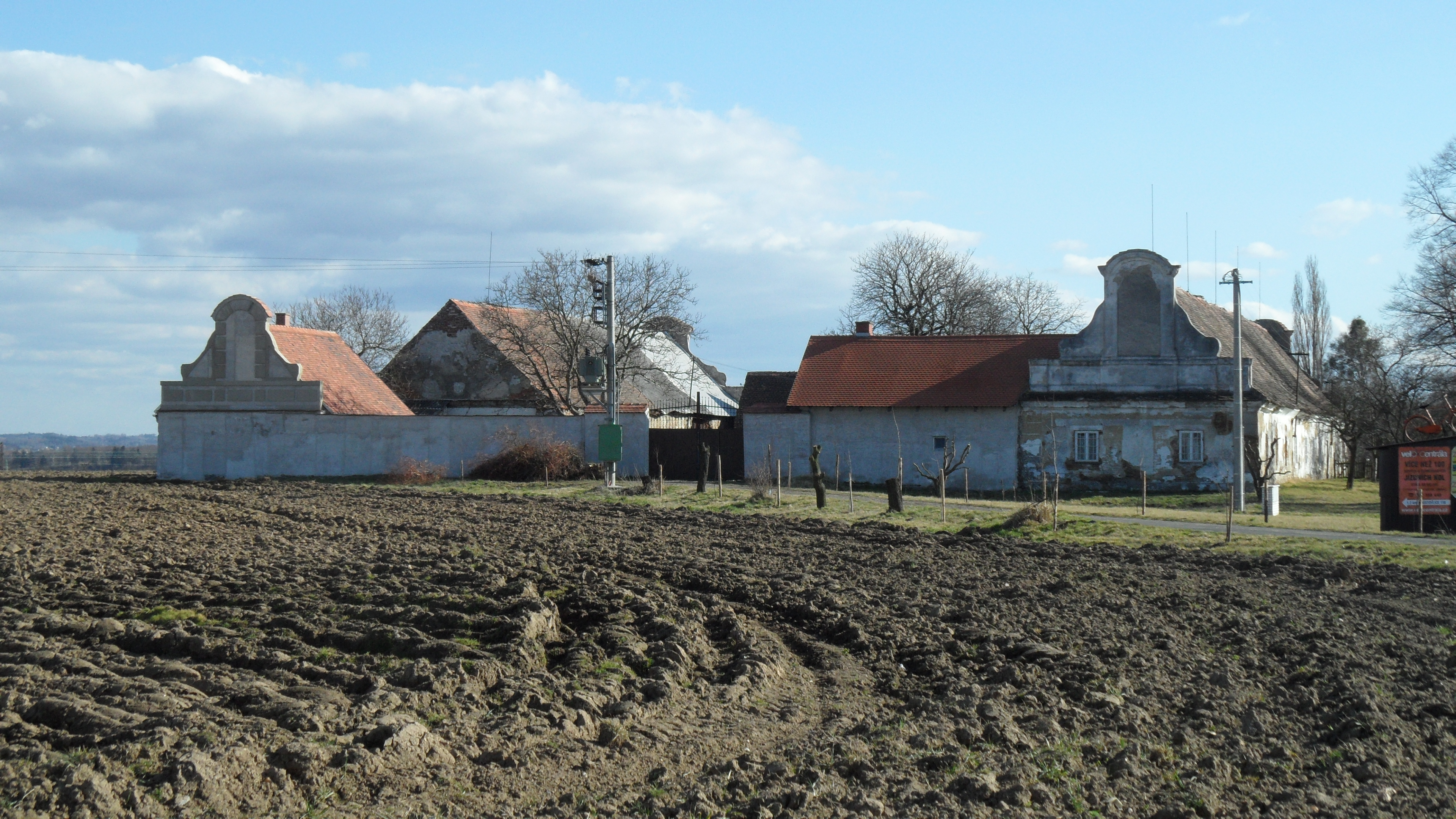 Okřesaneč, part Písek (next to Main Road Čáslav–Golčův Jeníkov) L. Overview of the Premises (view from Nort-West), Kutná Hora District, the Czech Republic.